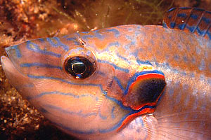 Symphodus ocellatus - male head